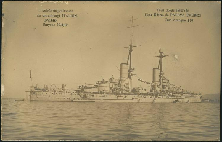 L'entrèe majestruese du dreadnought Italien Dvilio (Caio Duilio), Smyrne, 29 June 1919